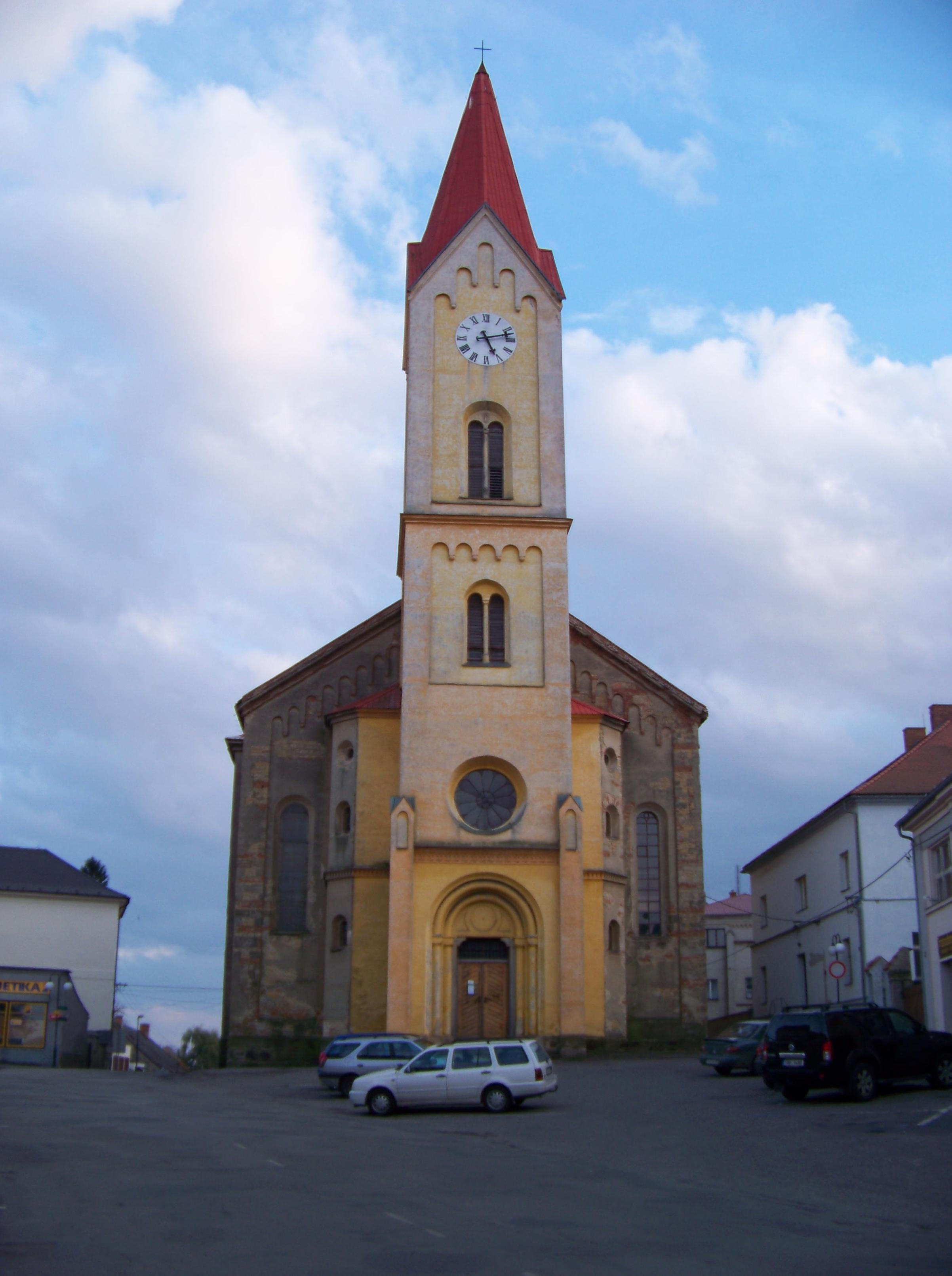 Mšeno, Mělník District, Central Bohemian Region, the Czech Republic. Masarykova street, Saint Martin Church.